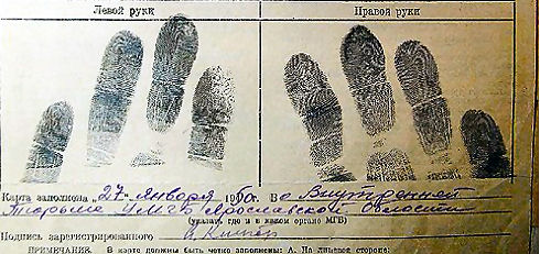 Fingerprints of Anna Timiriova taken by soviet police at her arrest in 1950